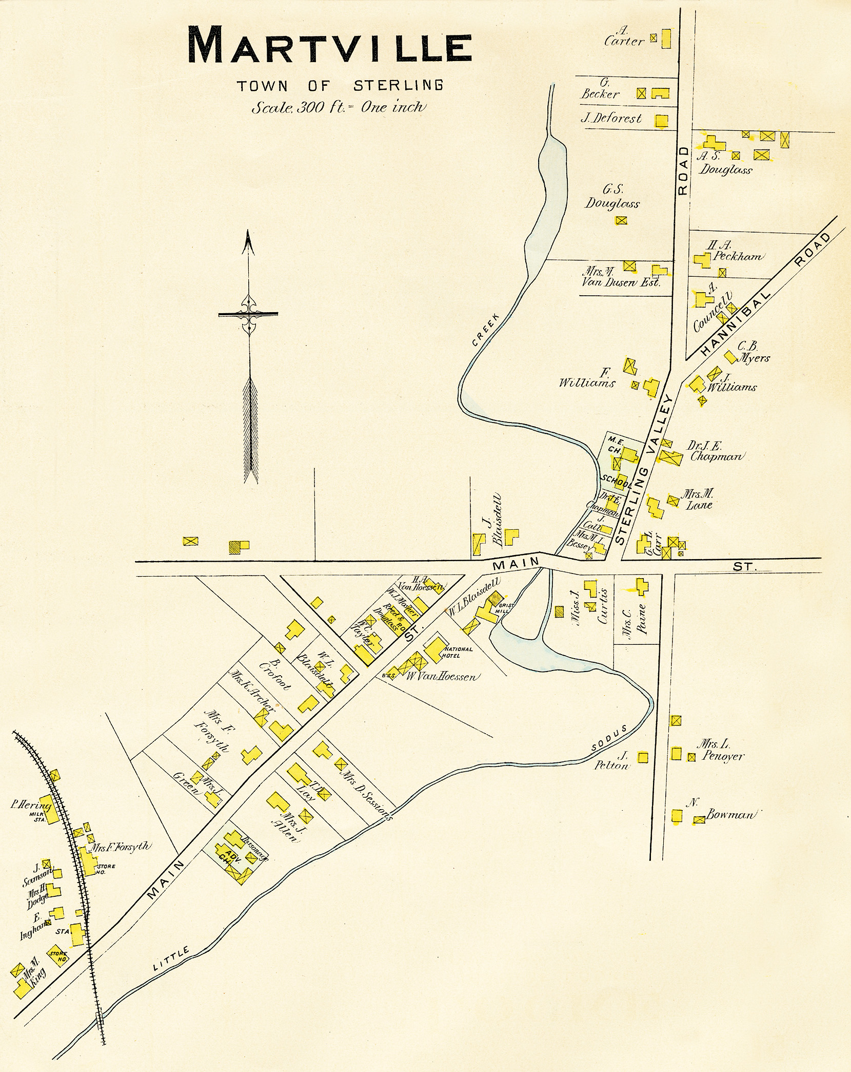 1904 map (plan) of Martville, New York, in the town Sterling